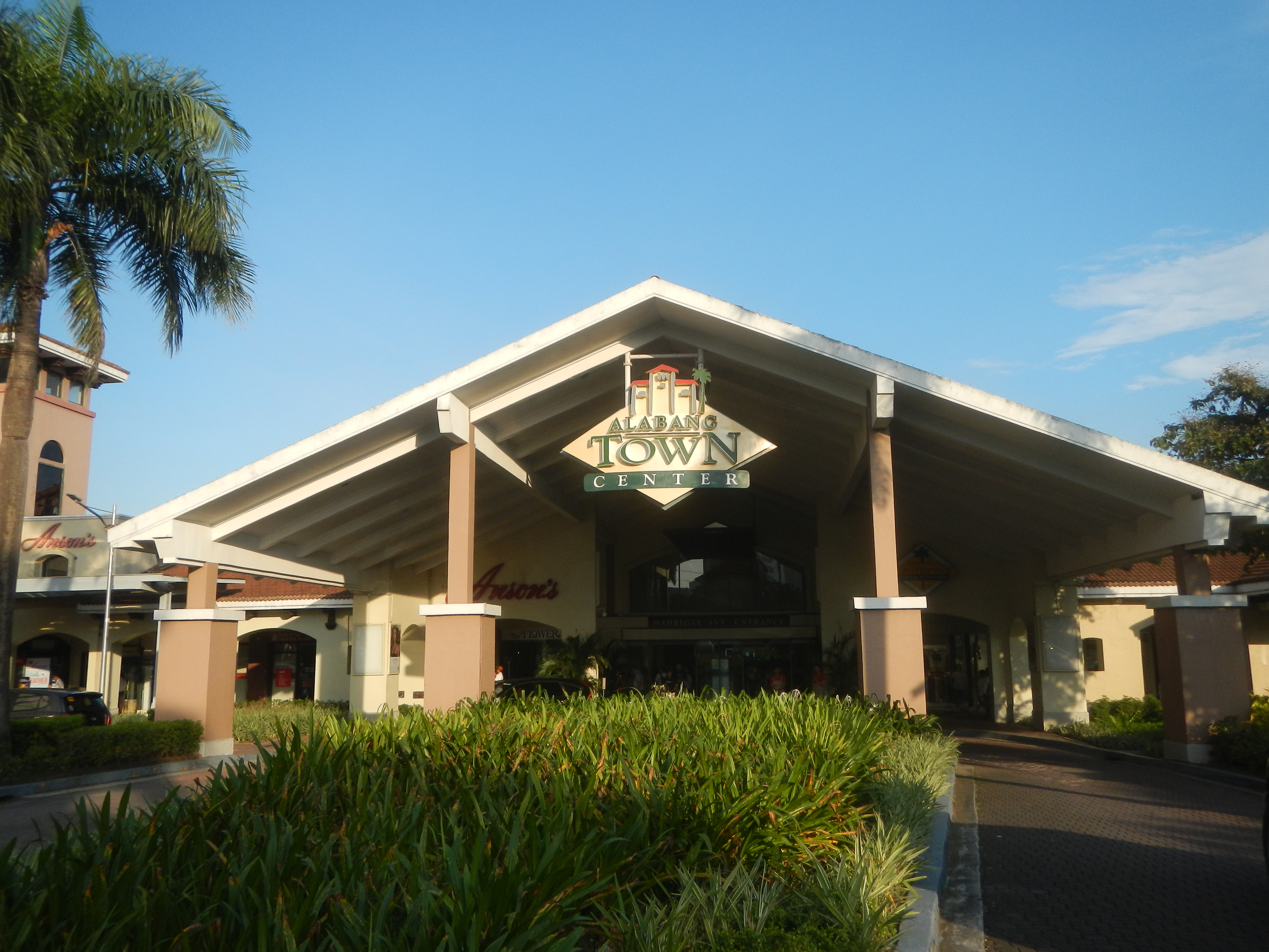 Alabang Town Center Barangay Barangay 14°24'35"N 121°1'20"E Ayala Alabang City of Muntinlupa Alabang–Zapote Road Philippine highway network (Note: Judge Florentino Floro, the owner, to repeat, Donor Florentino Floro of all these photos hereby donate gratuitously, freely and unconditionally Judge Floro all these photos to and for Wikimedia Commons, exclusively, for public use of the public domain, and again without any condition whatsoever).